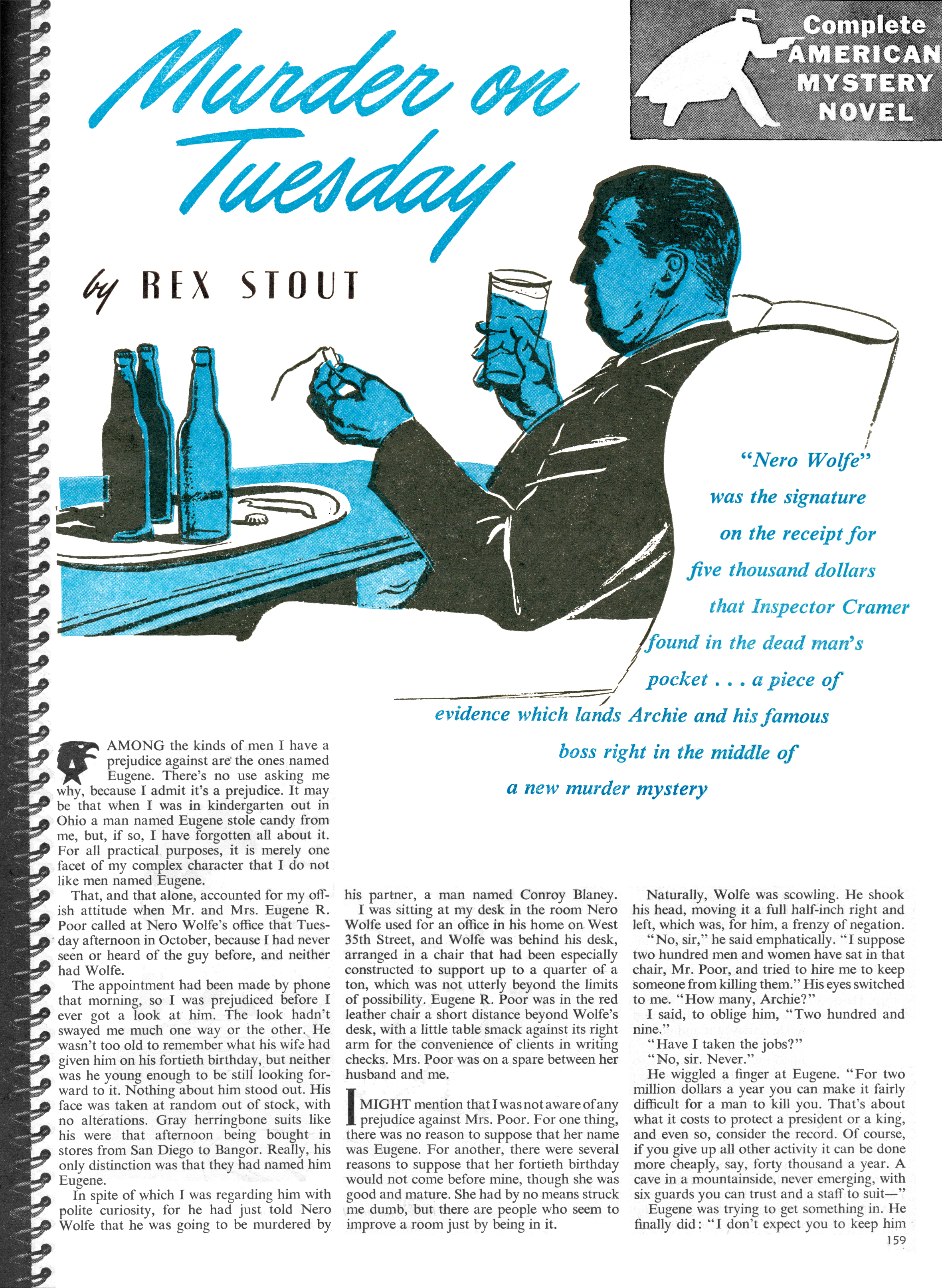 Lead illustration for "Murder on Tuesday," a Nero Wolfe story by Rex Stout that first appeared in The American Magazine and was subsequently titled "Instead of Evidence" when collected in book form